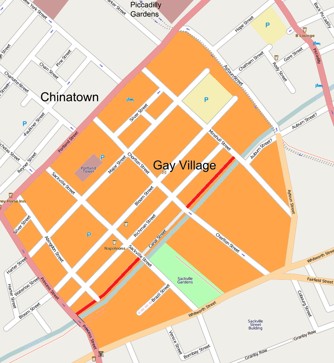 Canal Street with the Gay Village in Manchester; Border Source